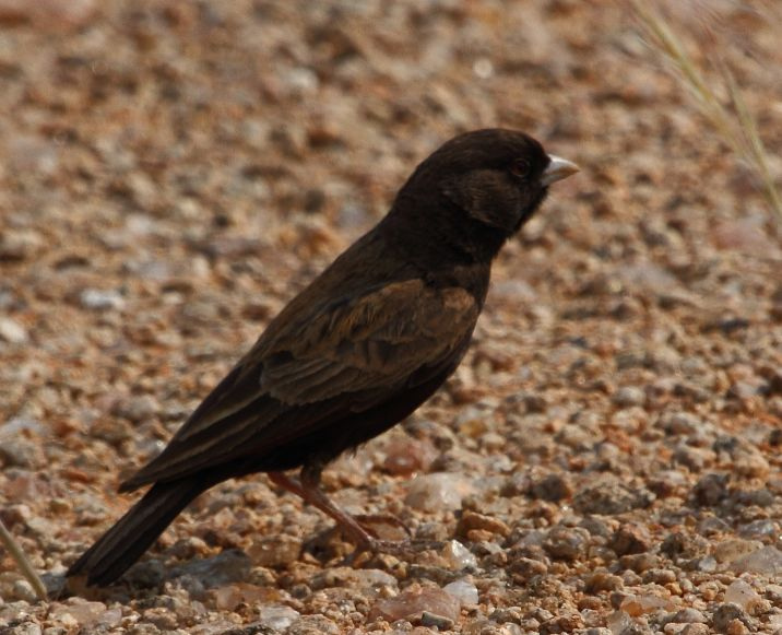 A male Black-eared Sparrowlark in Bushmanland, South Africa.